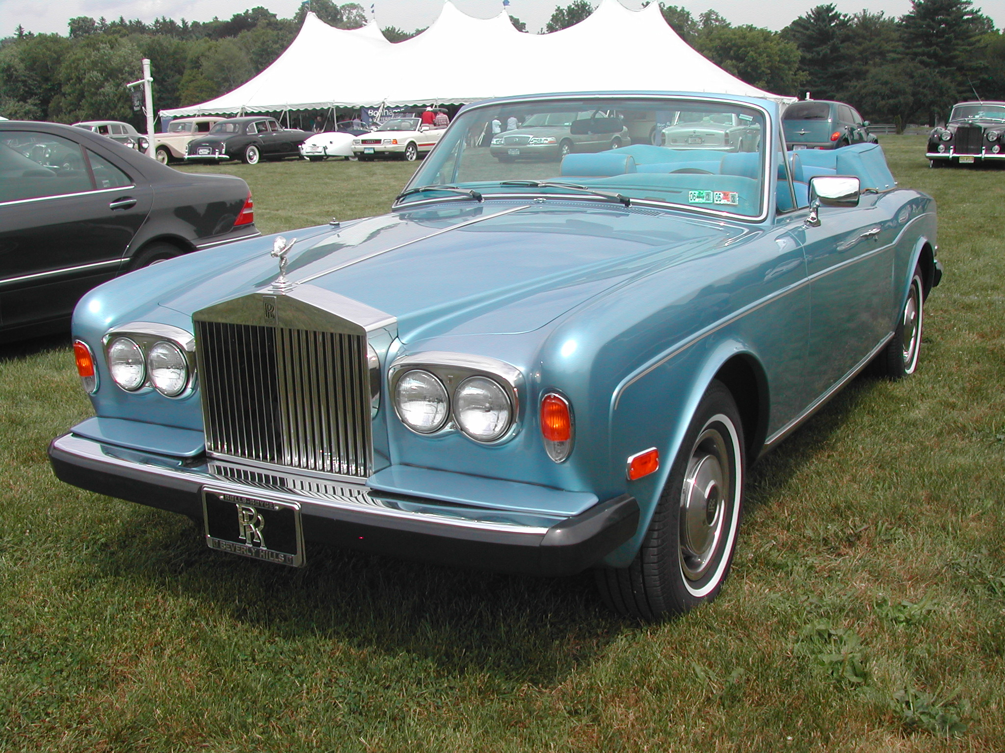 Second-generation Rolls-Royce Corniche, photographed by Jagvar at the Bonhams & Butterfields Auction in Darien, Connecticut on July 29, 2005.